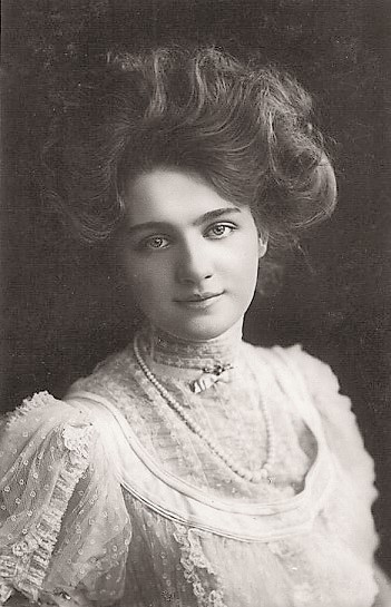 Lily Elsie